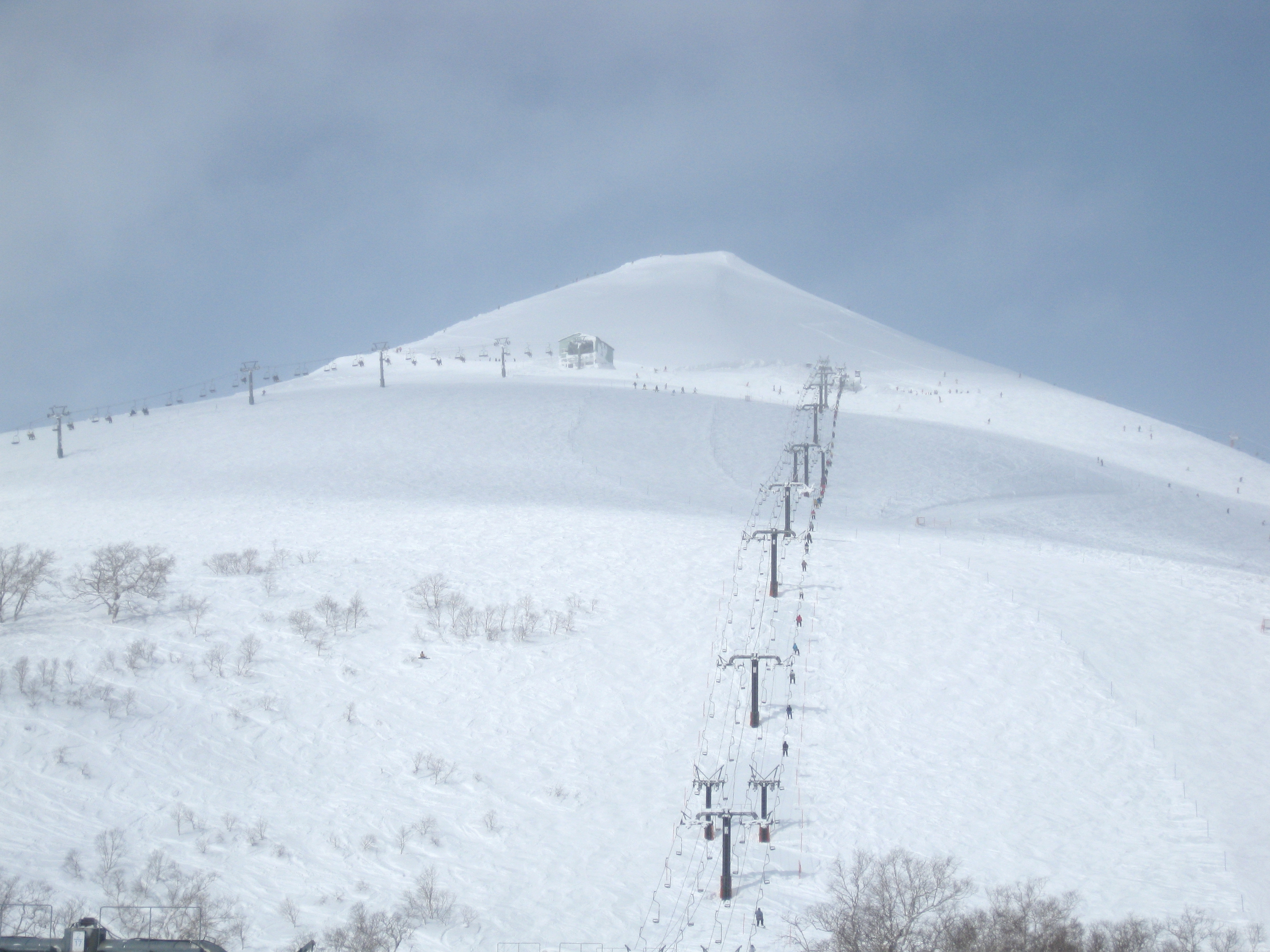 Niseko Annupuri in Niseko, Hokkaido, Japan.